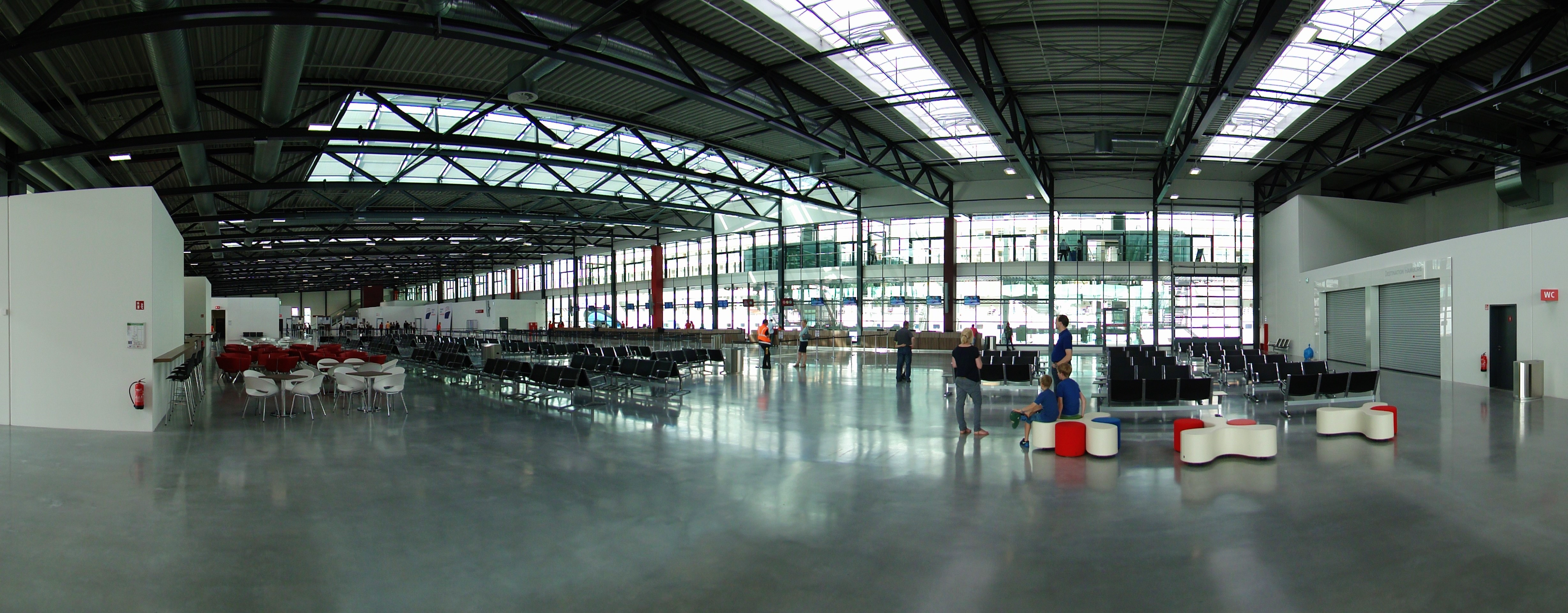 Hamburg Cruise Center Steinwerder